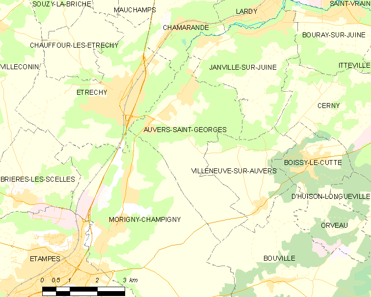 Map of French municipality Auvers-Saint-Georges